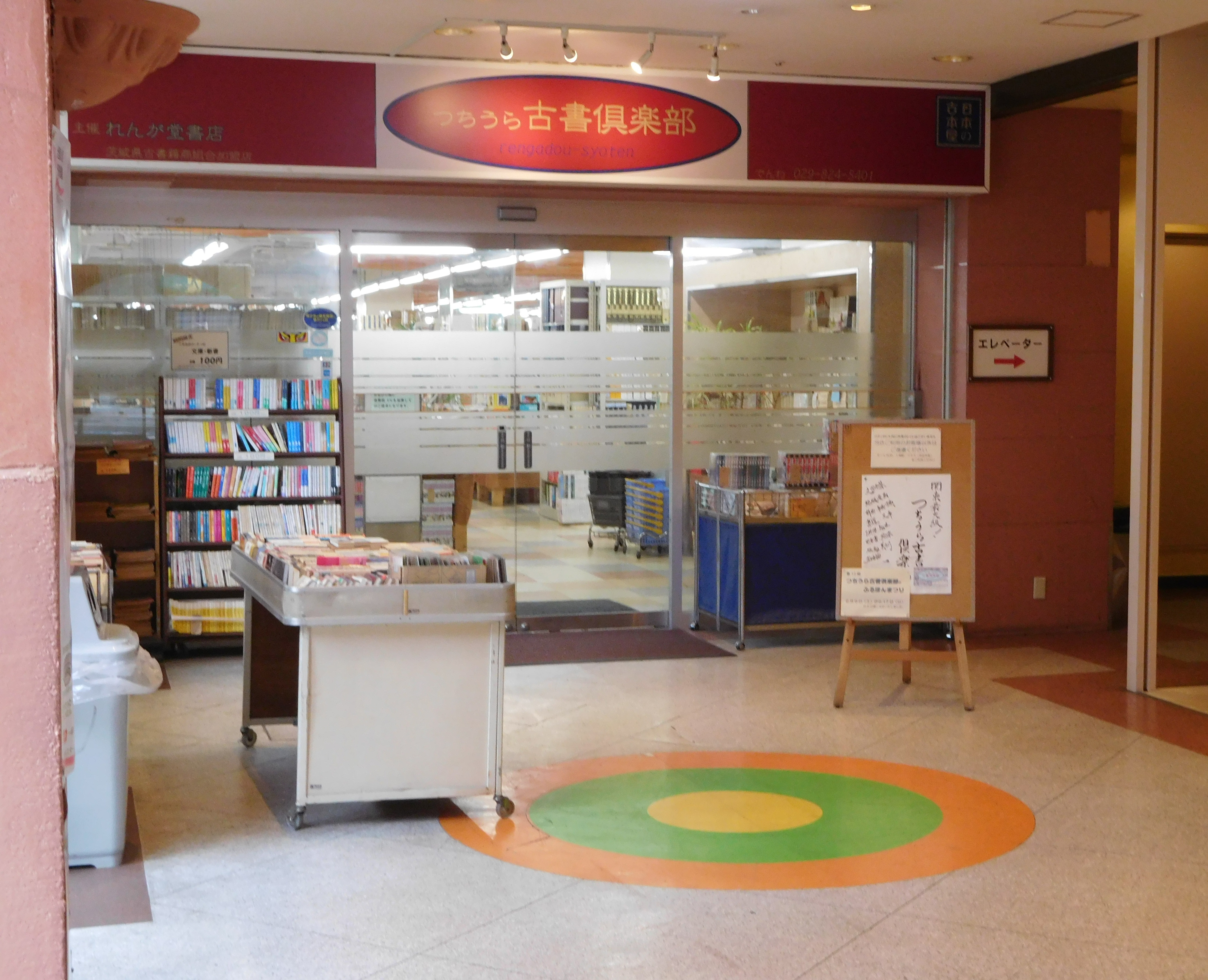 This is a second-hand bookshop "Tsuchiura Kosho Club" in Tsuchiura, Ibaraki, Japan.